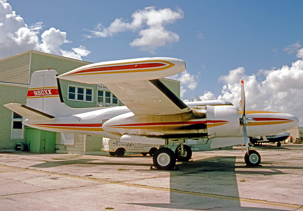 On Mark Marksman C (Douglas B-26) N60XX at Fort Lauderdale International in 1975